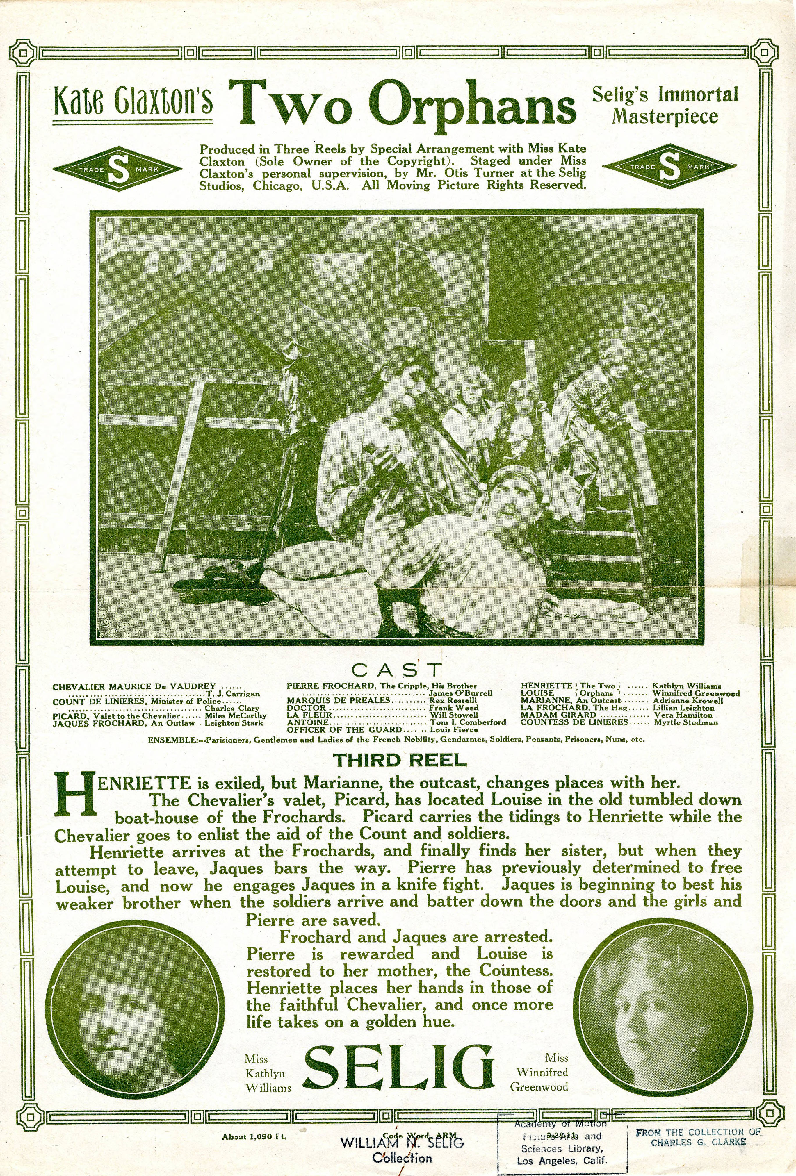 Release flier for third reel of TWO ORPHANS, 1911